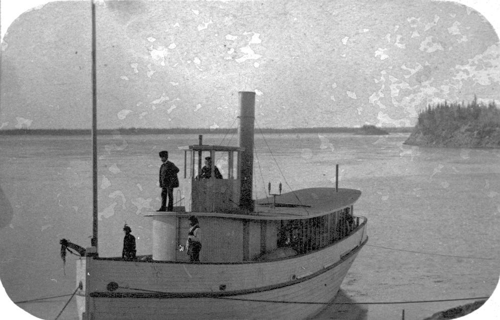 The steamboat St. Alphonse, an Oblate Order Mission ship on the lower Slave and Mackenzie rivers.